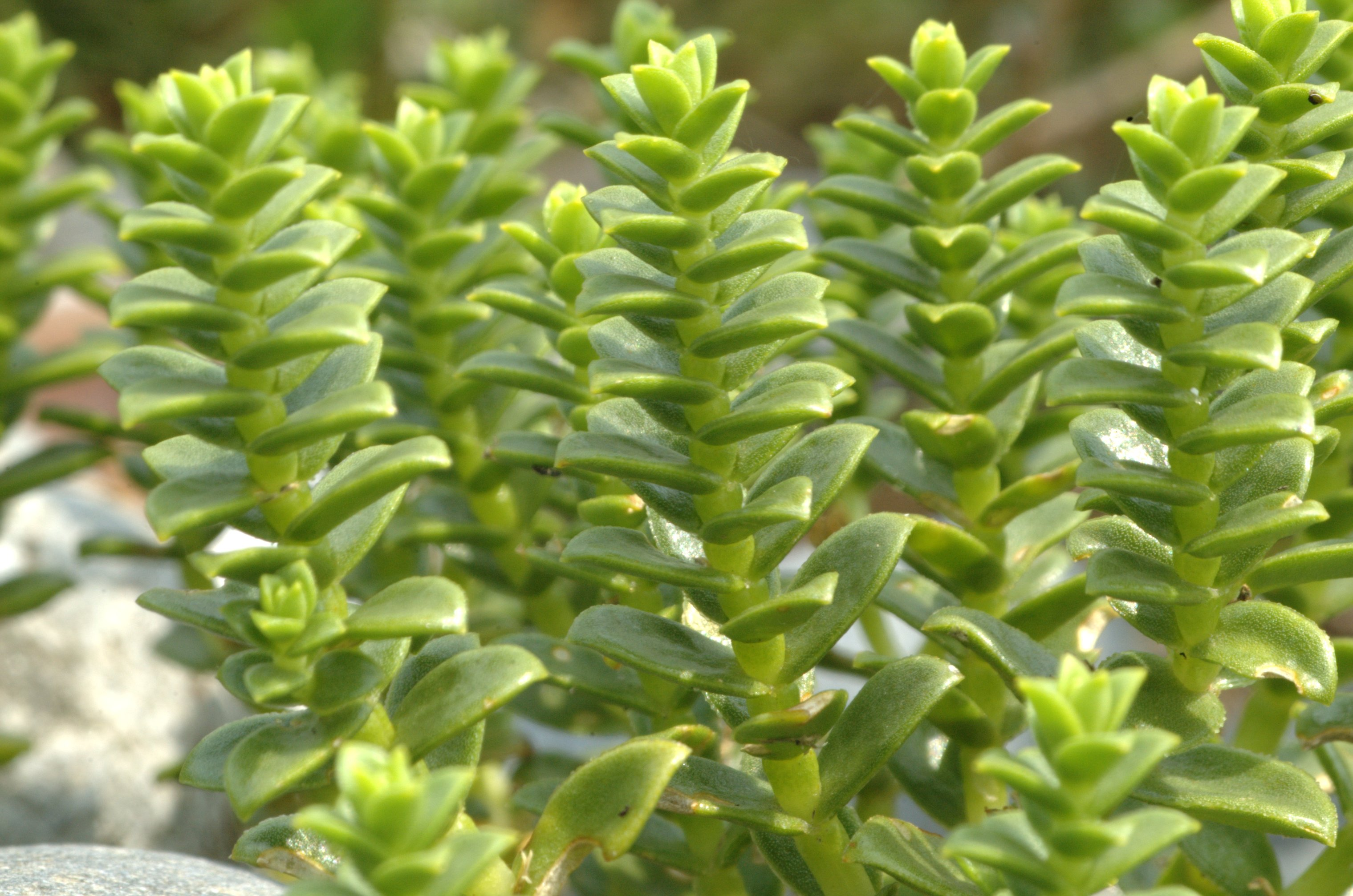 Honkenya peploides - Les Rosaires-France july 2004 - leaf